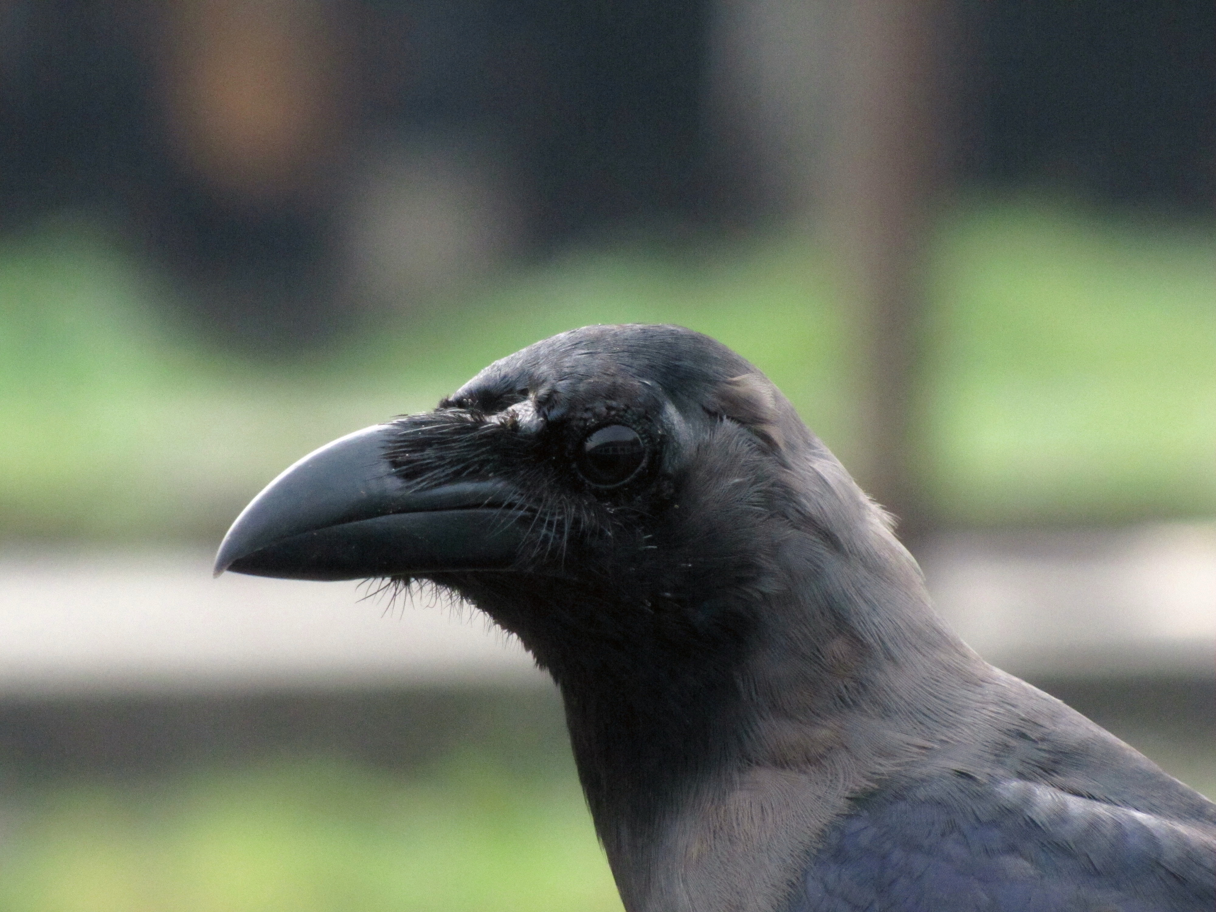 House Crow(Corvus splendens) head from Mangalore